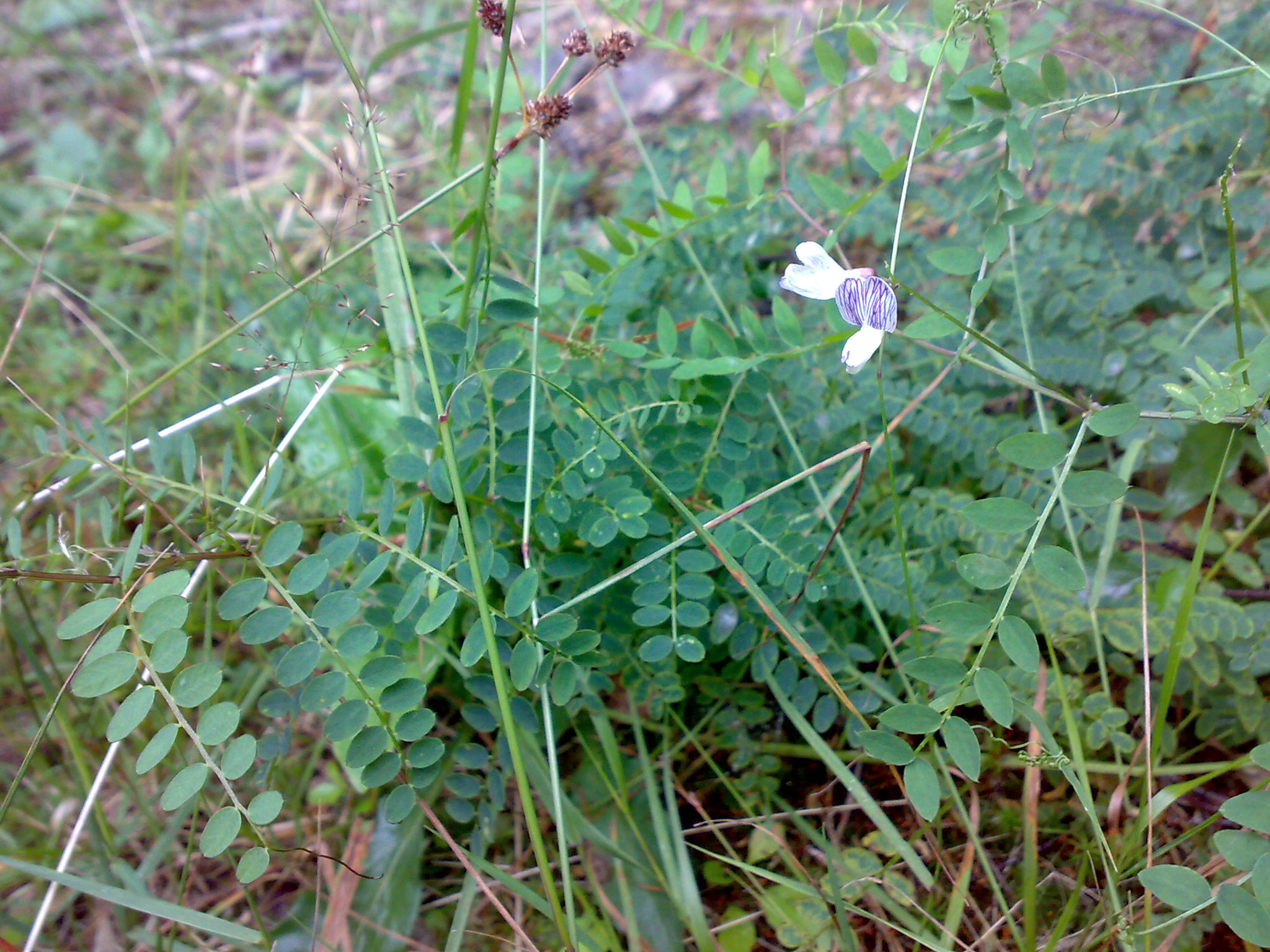 Vicia sylvatica in Hurum, Norway.